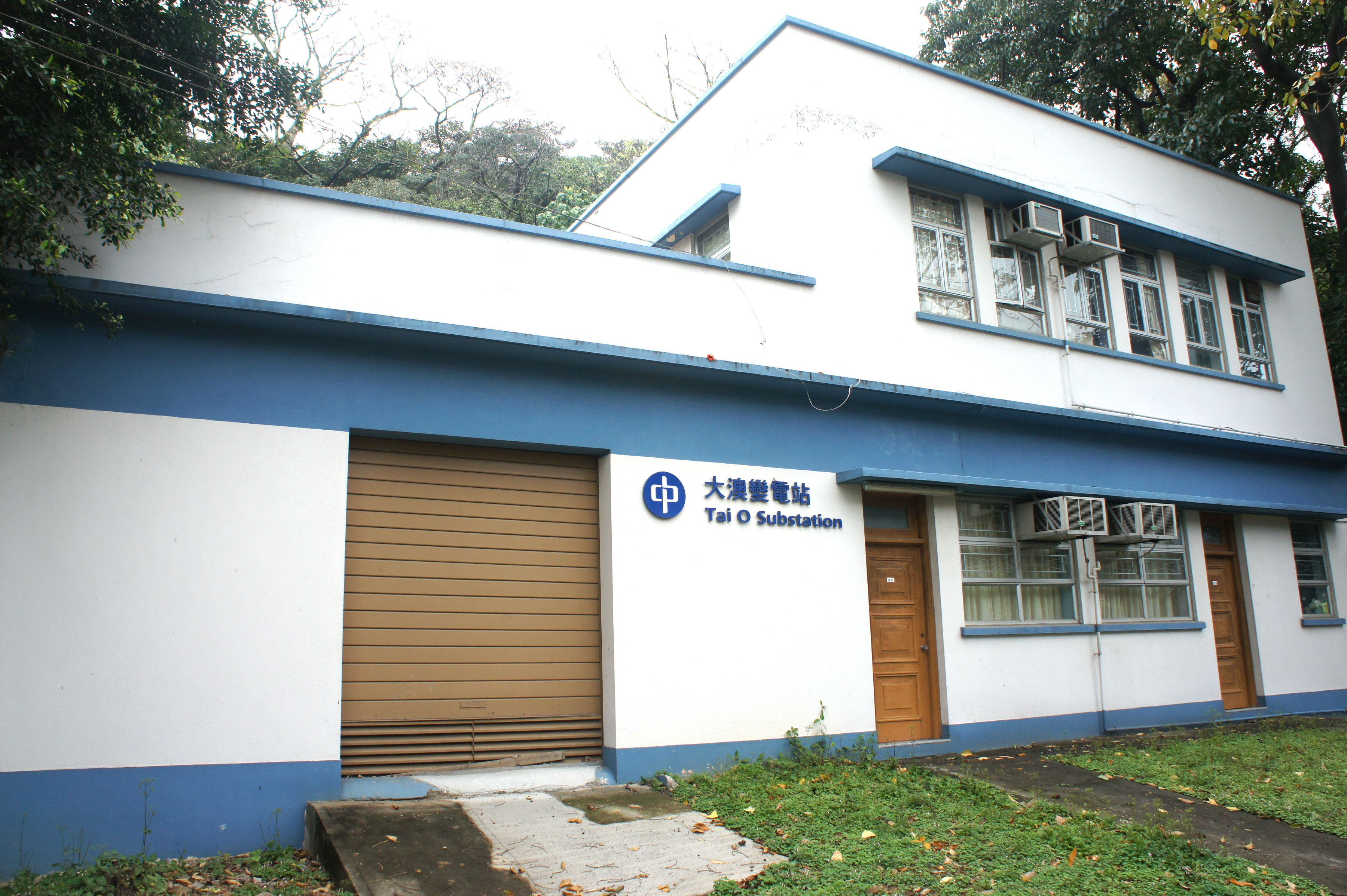 China Light and Power Co., Ltd. Tai O Substation, Lantau Island, Hong Kong.